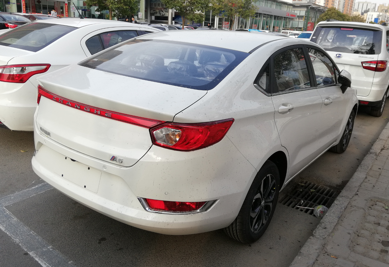 Changhe A6 photographed in Zhengzhou, Henan province, China.